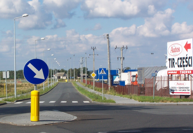 Author: Yves6 - Entry to Industrial Park in Solec Kujawski, Poland